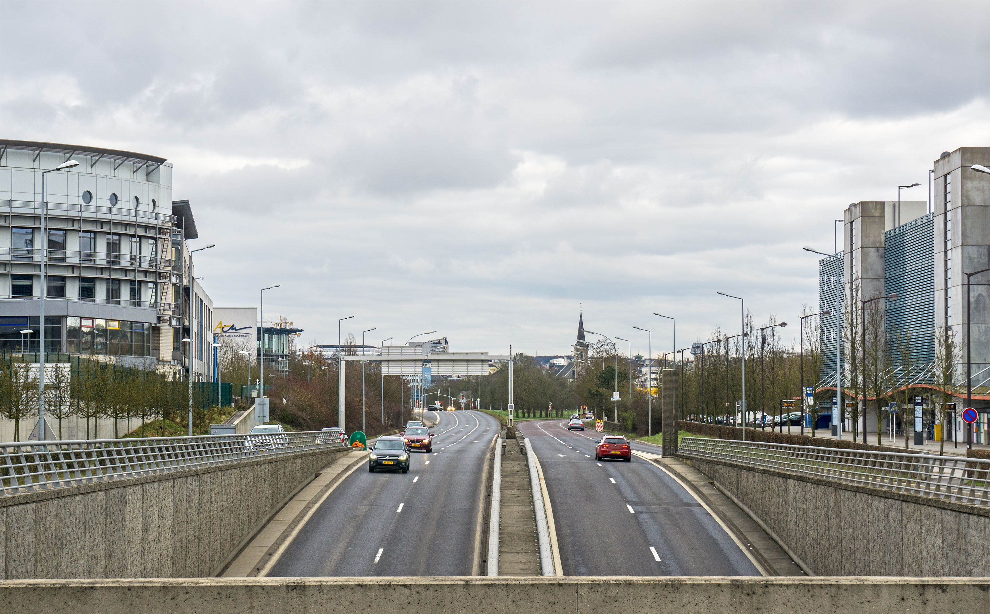 The entry resp. exit of the highway A4 to Luxembourg City